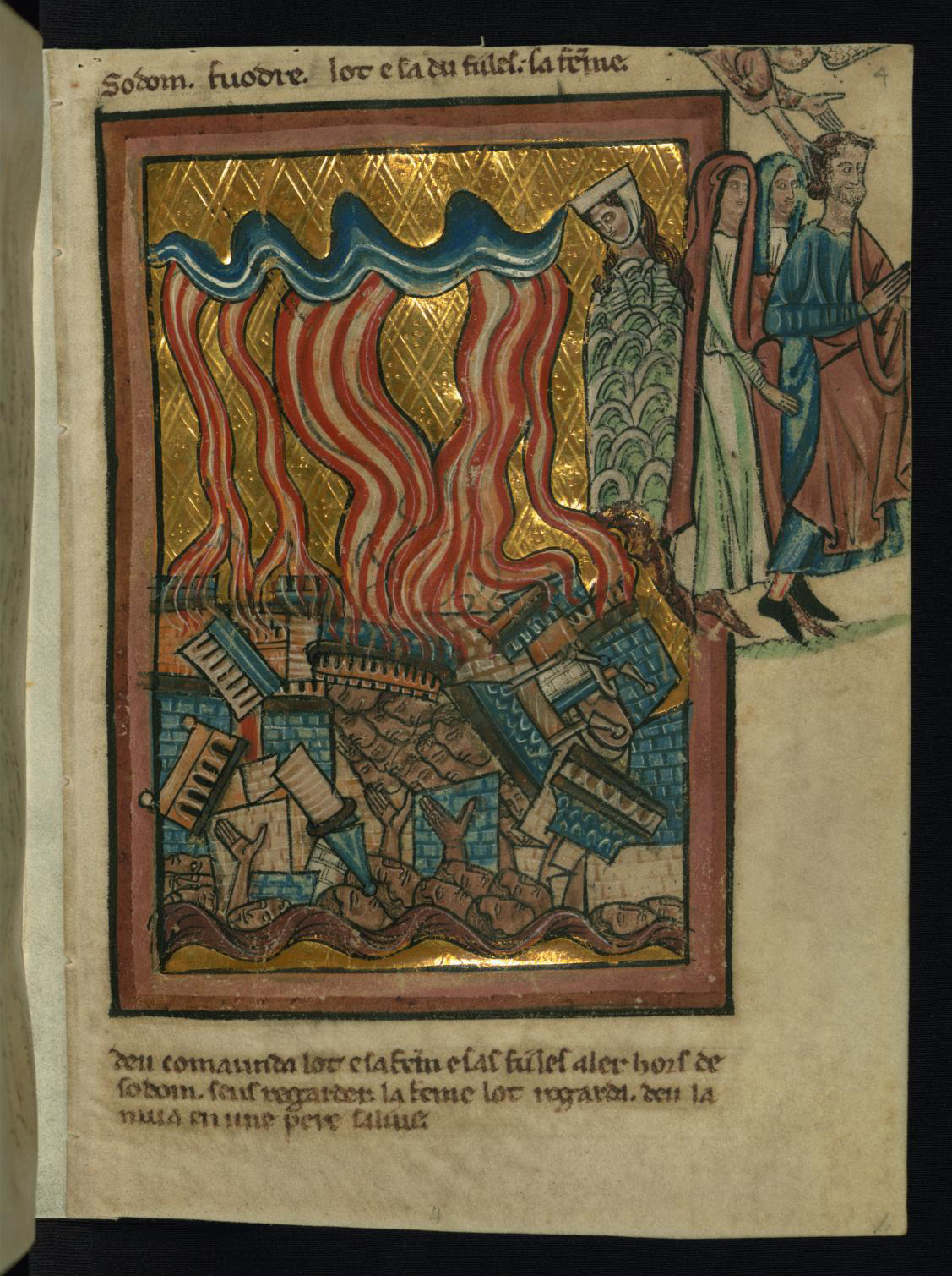 This page from Walters manuscript W.106 depicts a scene from the story of Sodom and Gomorrah. Having saved Lot and his family from the Sodomites, the angels instructed him to flee the city with his wife and two daughters, because the angels were about to destroy it. Lot lingered, so they took his hand, and those of his family, and placed them outside the city, and instructed them to flee to the small city of Zoar, without looking back. However, Lot's wife disobeyed, and upon looking back she was turned into a pillar of salt.